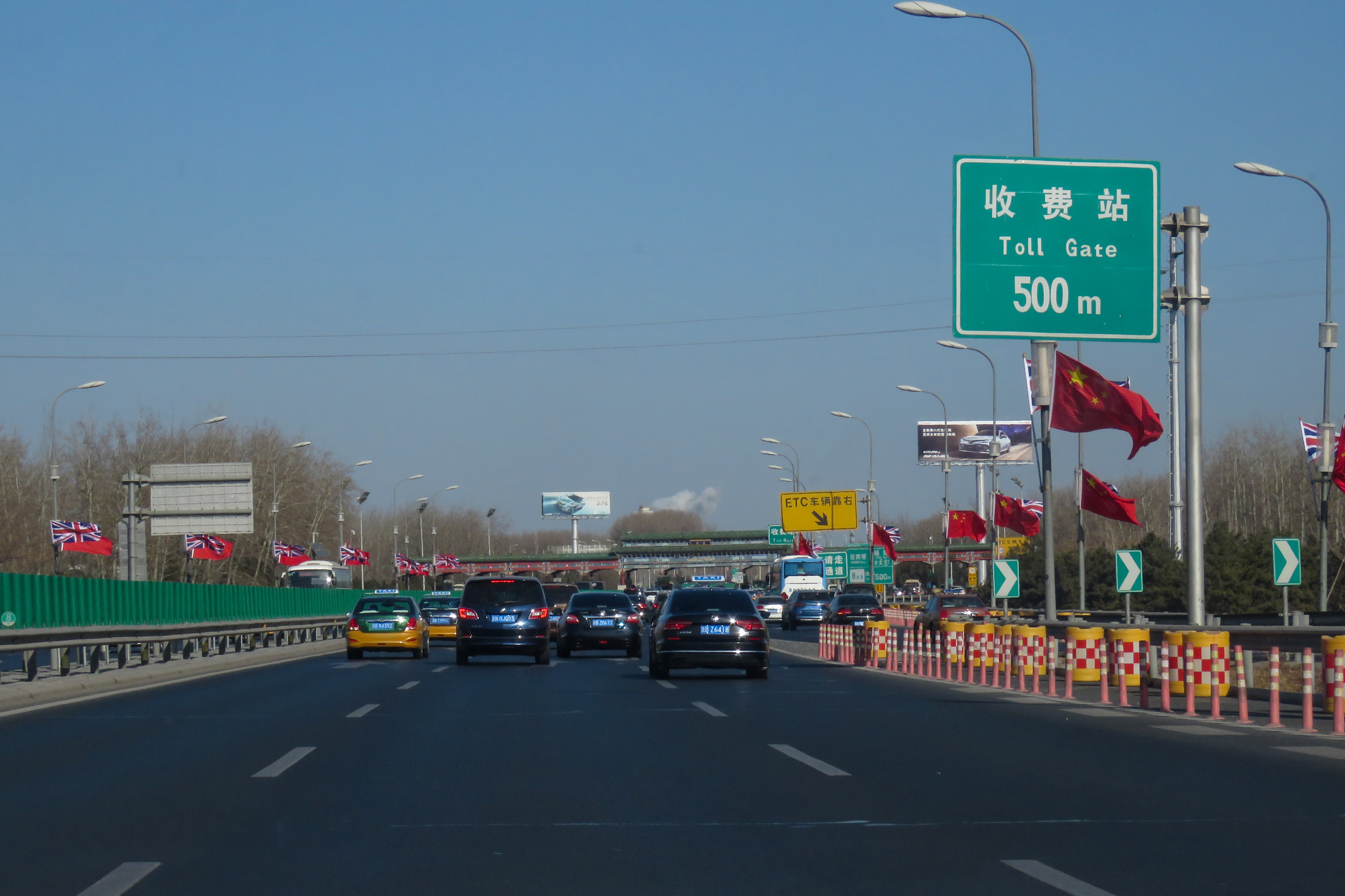 500 meters to toll plaza. Flags can only be seen between Wenyu Bridge and toll plaza.